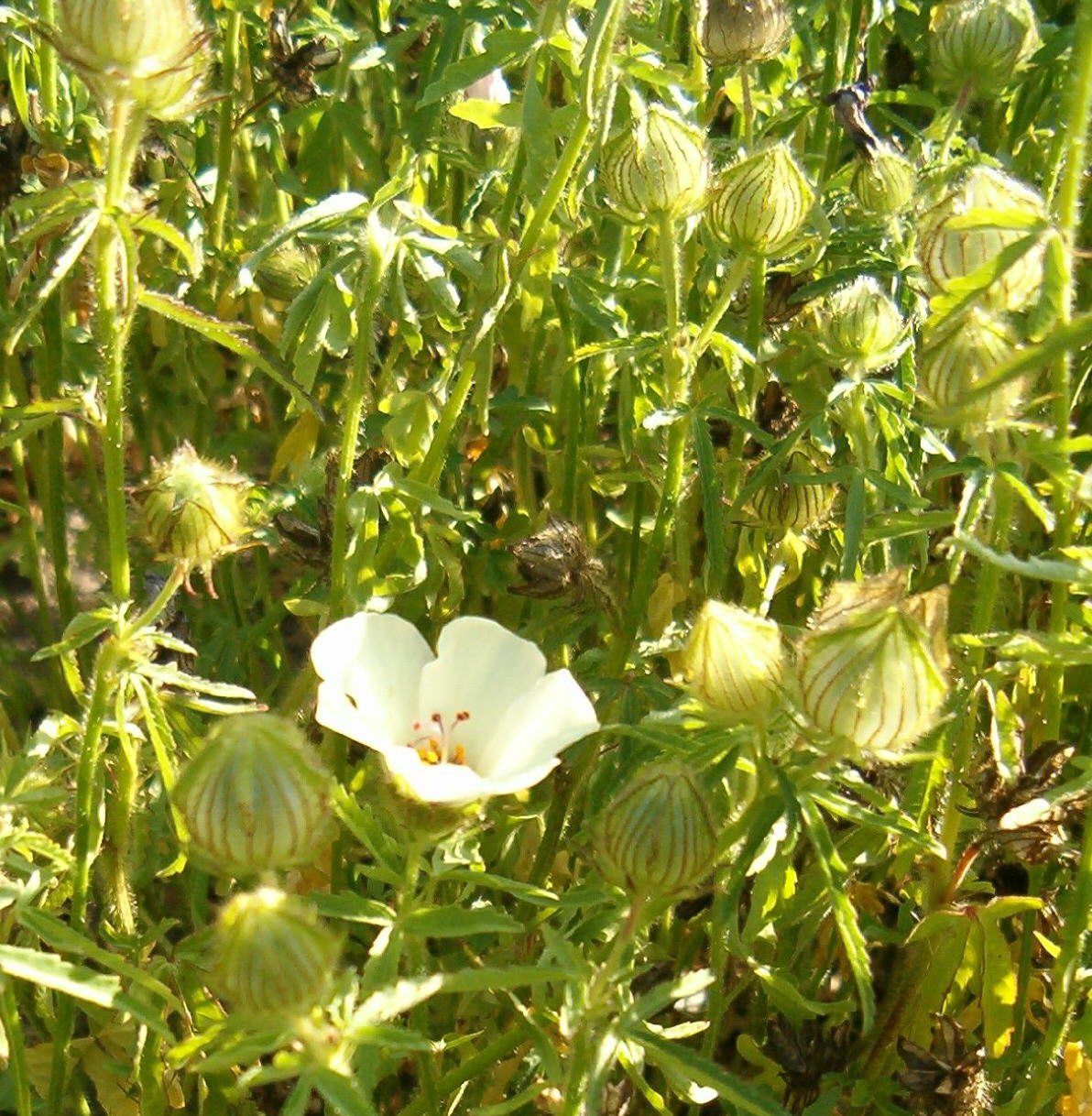 Hibiscus trionum, Habitus and Flower; Location: Botanical Gardens Berlin